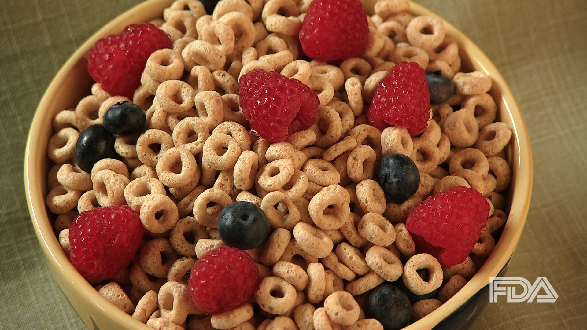 Like adults, youngsters need dietary fiber. By helping our digestive system work effectively, fiber plays an important role in maintaining good health. Great natural sources of fiber include: • Beans, like navy, pinto, kidney, and black or white • Peas, like split peas, chickpeas, and black-eyed peas • Fruit, like pears, raspberries and prunes • Vegetables, like spinach, carrots, and broccoli • Whole grain cereal, whole grain bread, and whole grain pasta For more information, watch FDA’s Consumer Update video “Kids ‘n Fiber” at